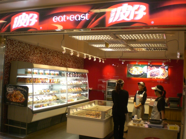 波仔飯專門店@富昌邨商場 店員